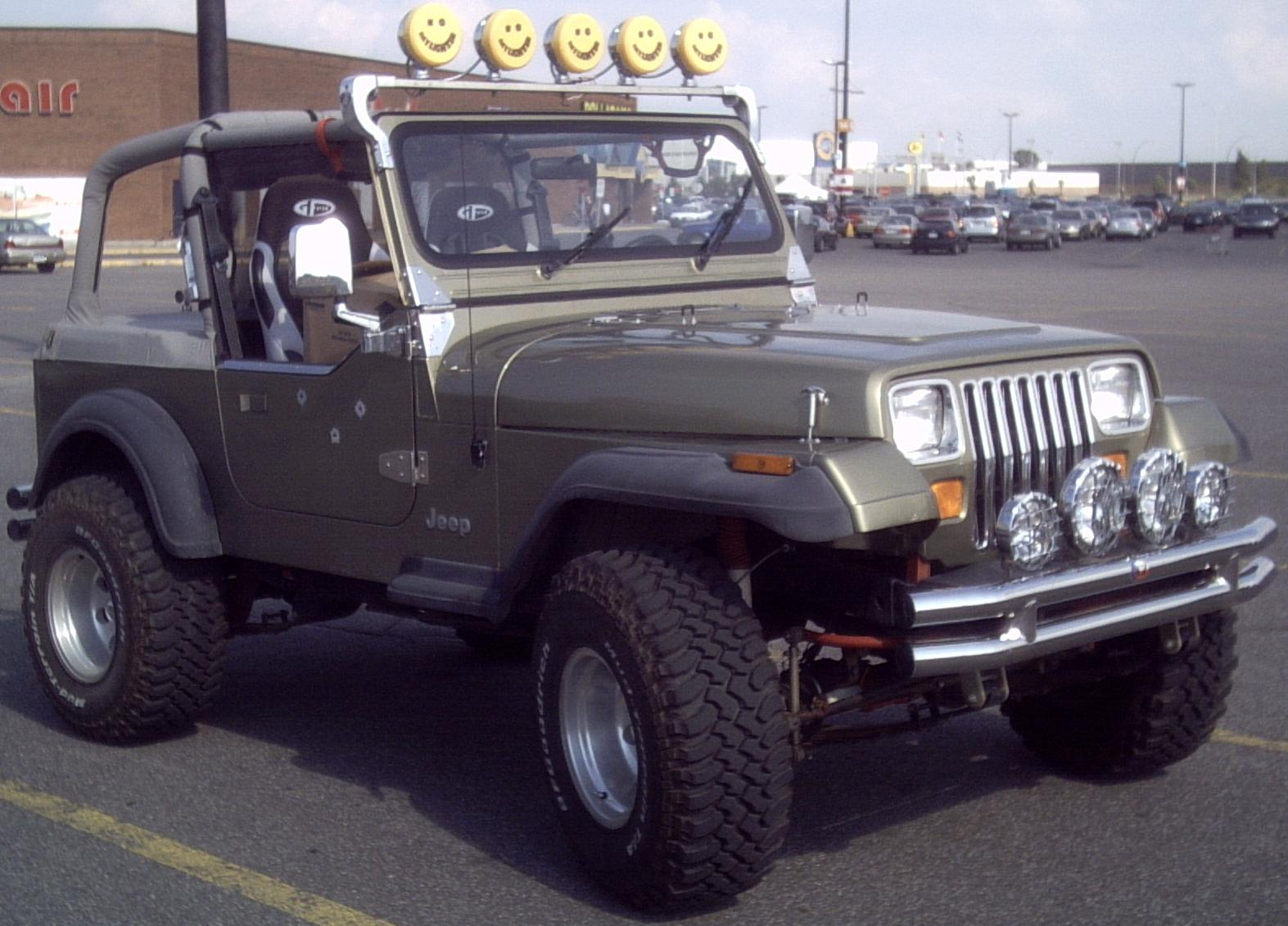 1987-1996 Jeep YJ photographed in Montreal, Quebec, Canada.